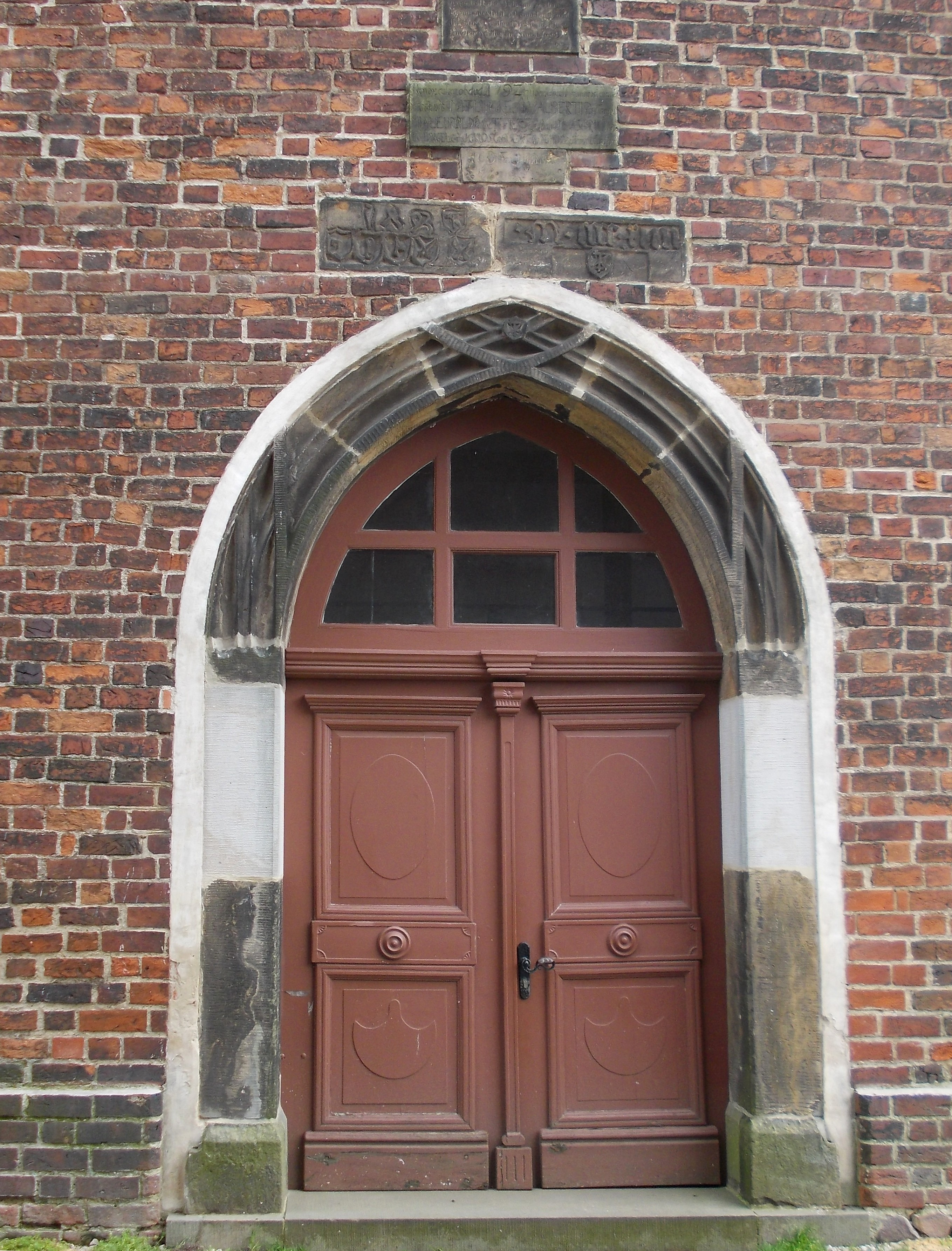 Portal of St. Mary's Church in Dommitzsch (Nordsachsen district, Saxony)